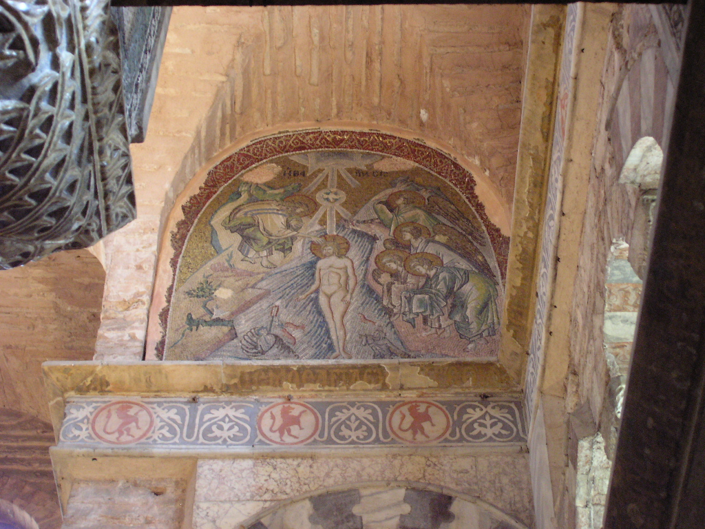 Baptism of Christ, Mosaic, Pammakaristos Church, Istanbul